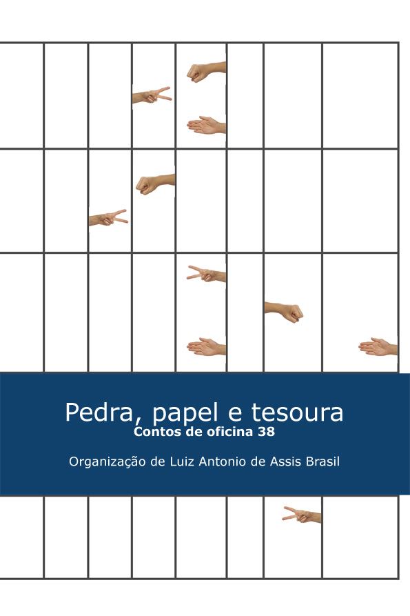 The cover of the book "Pedra, Papel e Tesoura", featuring the elements of RPS